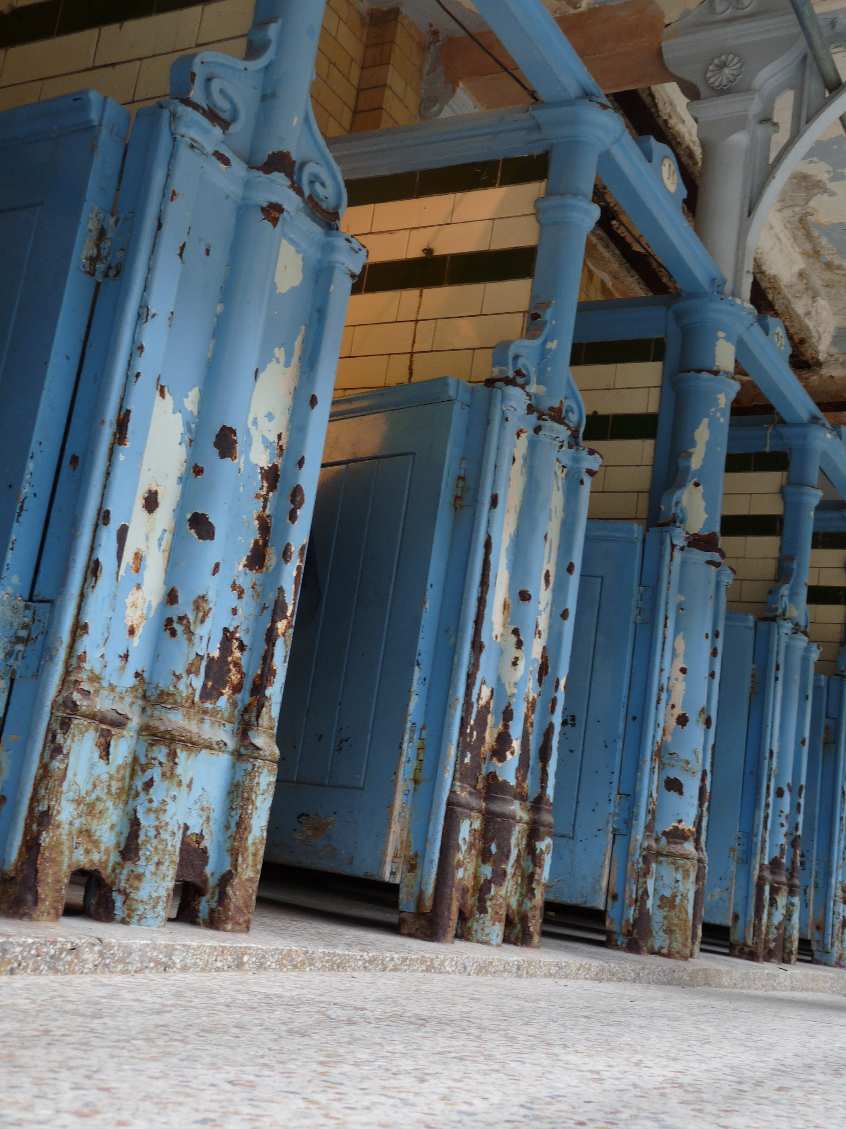 The stalls around the main pool in April 2011.